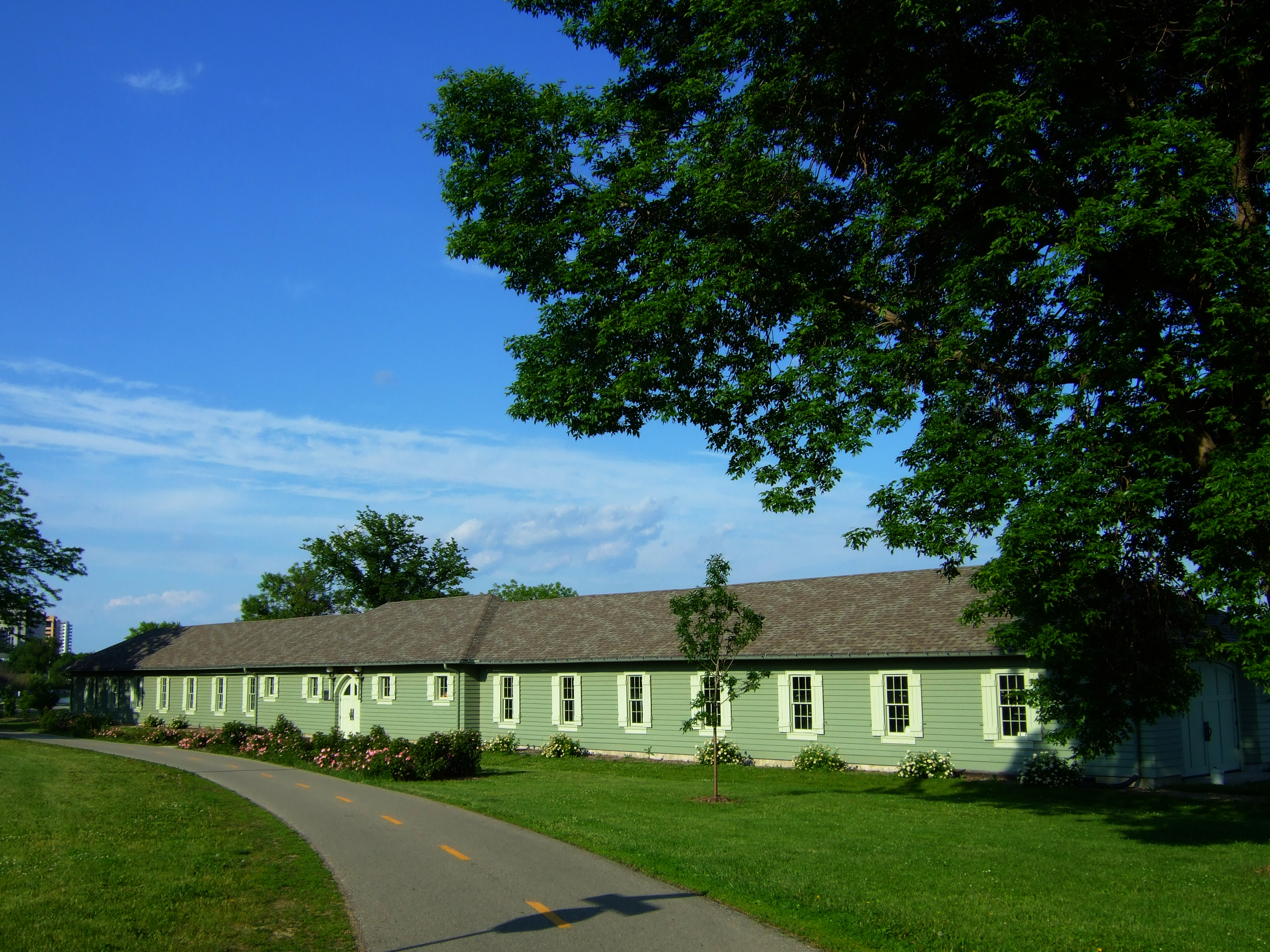 The Brittingham Boathouse (1910) on N. Shore Drive in Madison, Wisconsin, was designed by Ferry & Clas and added to the National Register of Historic Places in 1982. The construction of this public boathouse represents the spirit of municipal improvement that infused Madison at the turn of the century. The parkland and its model facilities were created through the generosity of lumberman Thomas E. Brittingham and the hard work of a private group, the Madison Park and Pleasure Drive Association headed by John M. Olin. George B. Ferry and Alfred C. Clas were distinguished Milwaukee architects known in Madison for their design of the State Historical Society building.